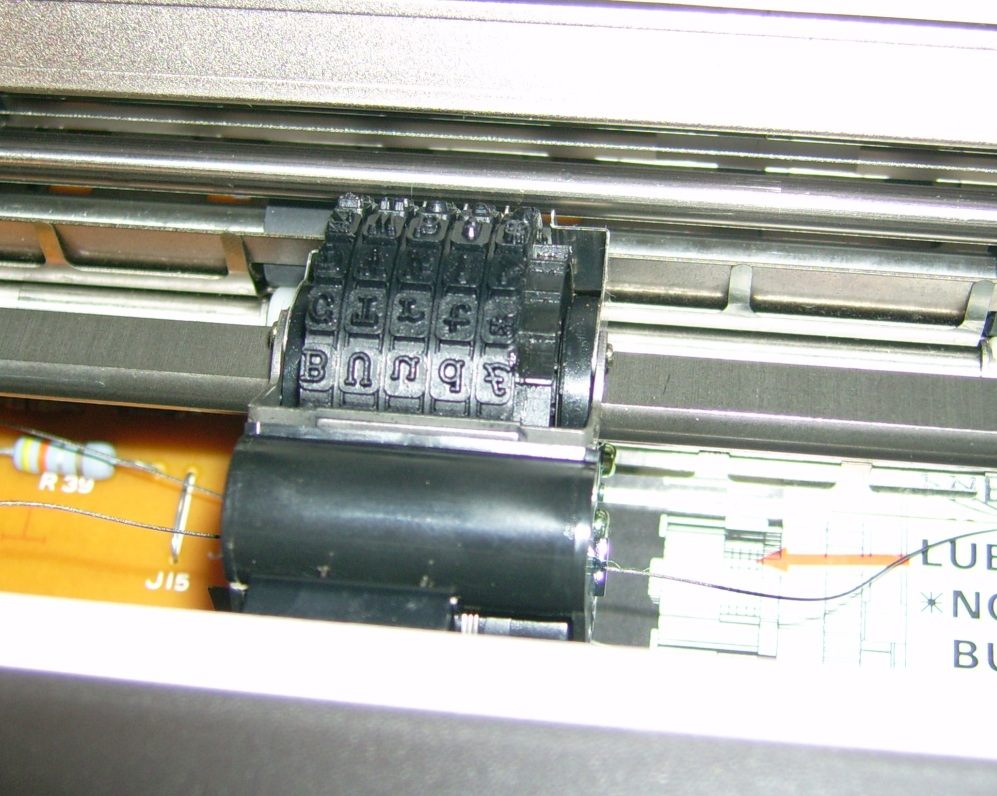 Printing element of an Atari 1027 daisy-wheel printer